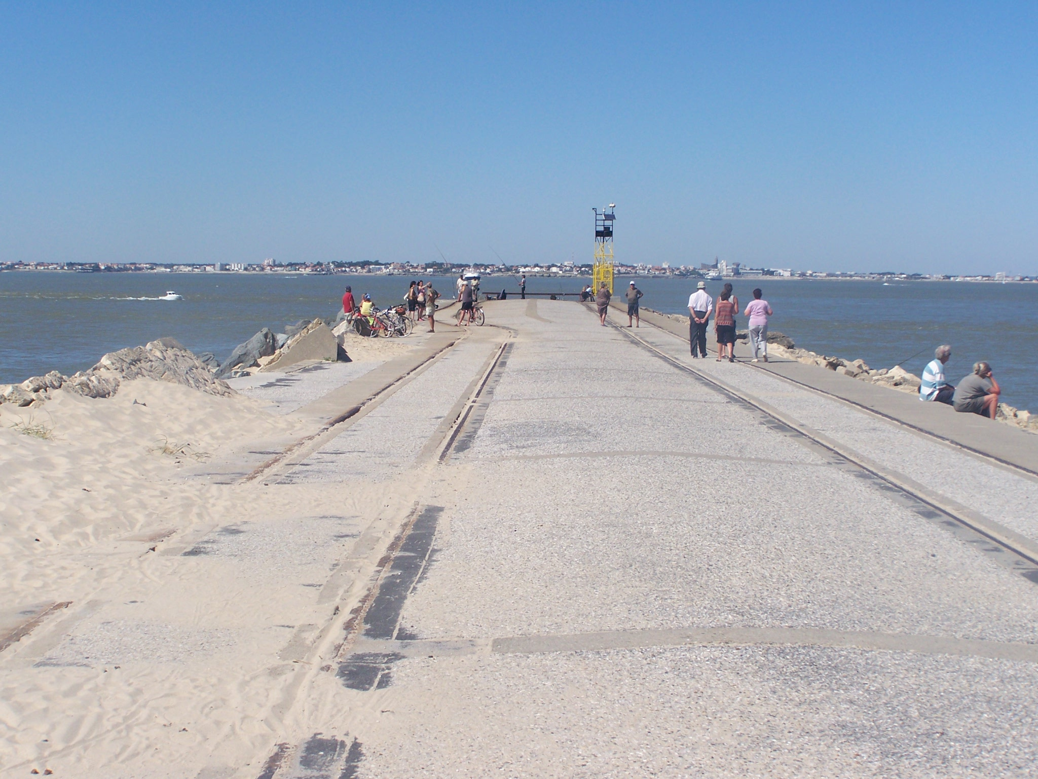 Sight on the cities of Royan and Saint-Georges de Didonne in France from the Pointe de Grave peninsula, at the Gironde estuary.